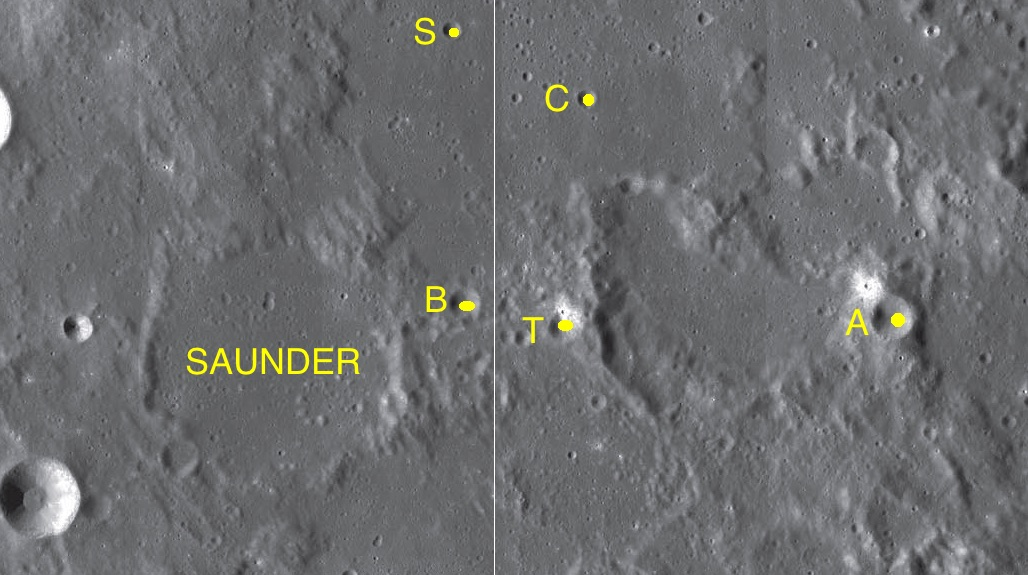 Parts of the charts LAC-77, LAC-78 used for the presentation